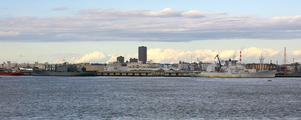 U.S. Military Sealift Command ships USNS San Jose (T-AFS-7), left, and USNS Observation Island (T-AGM-23) at the Yokohama North Dock, Yokohama, Japan, in 2006.